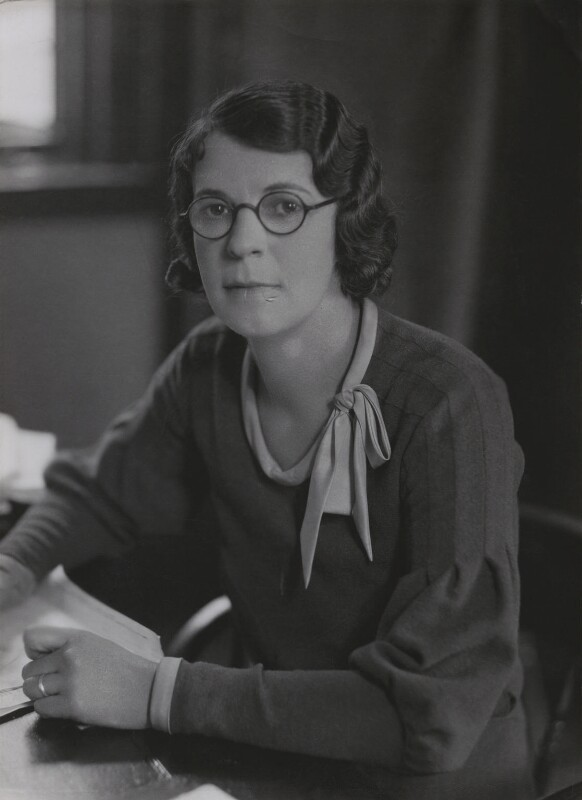 unknown photographer - someone employed by Elliott & Fry in the 1930s